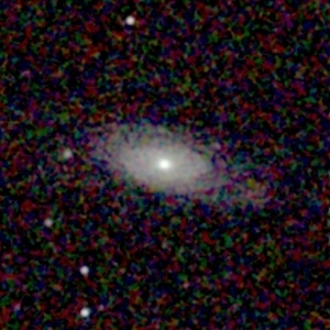 Galaxy NGC 4357